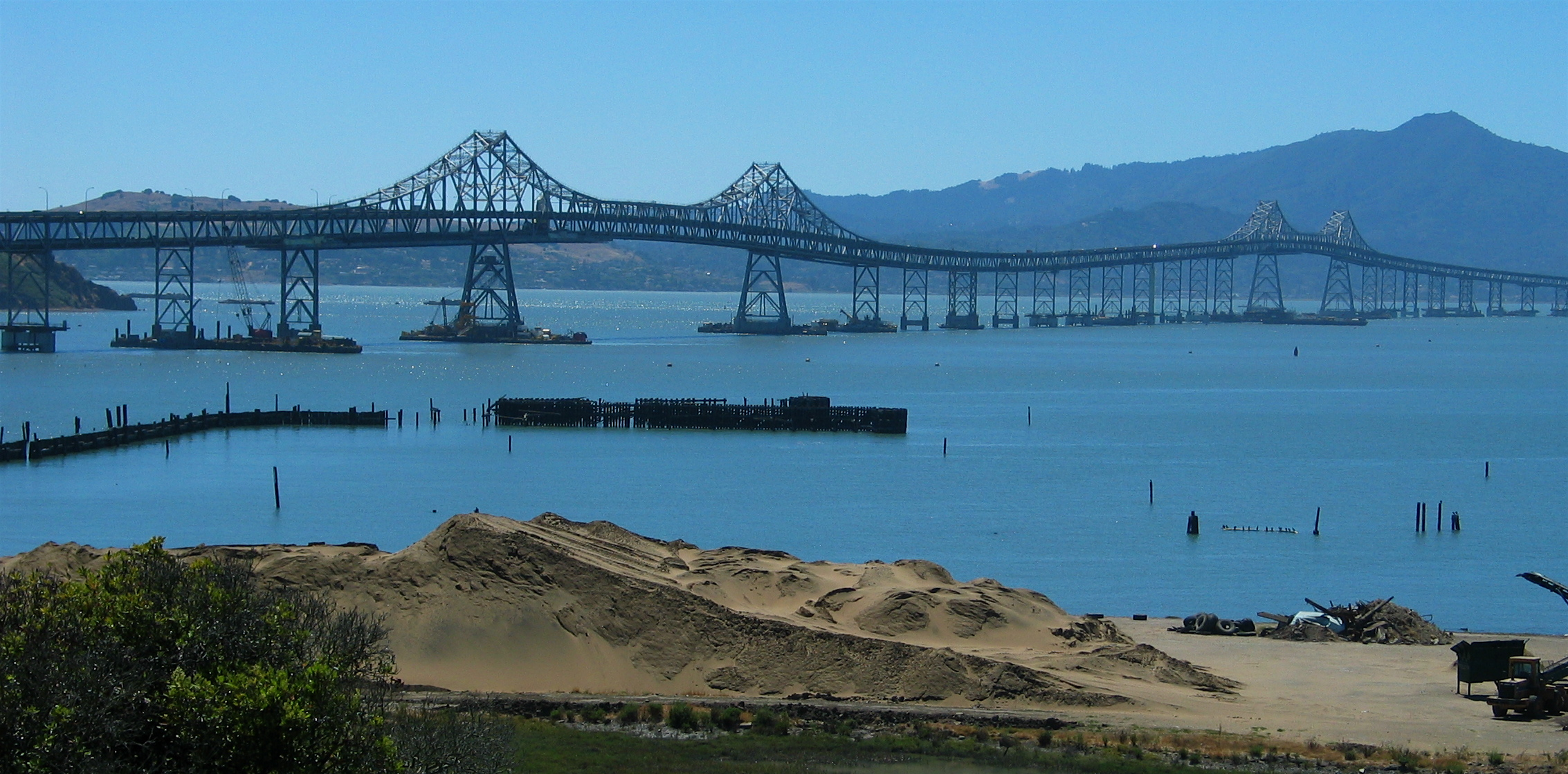 Panaramic view of the Richmond-San rafael Bridge.